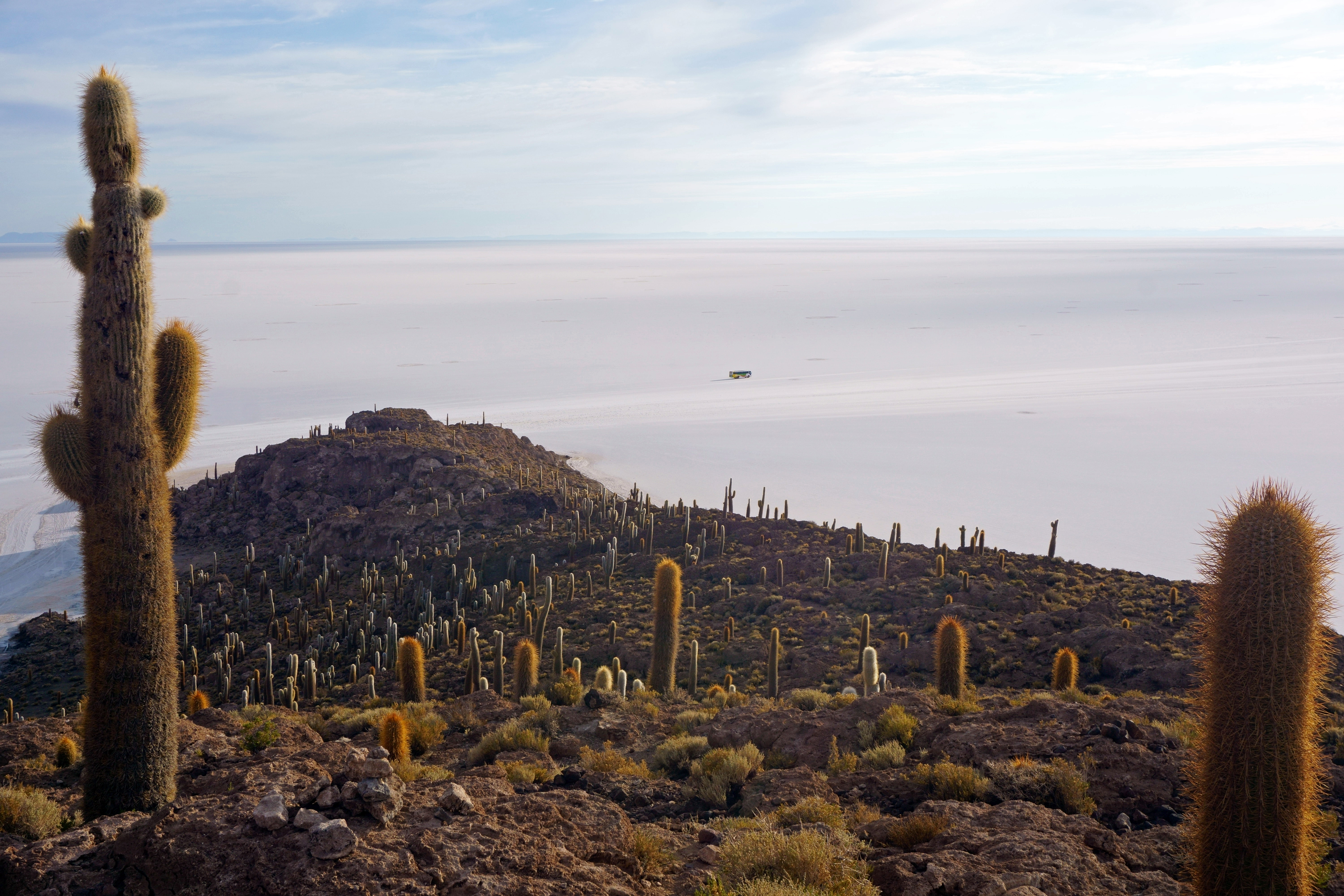 View of the Salar de Uyuni, the giant cactuses (Echinopsis atacamensis) in Incahuasi island, Daniel Campos Province, Potosí Department, southwest Bolivia. This salt flat is, with a surface of 10,582 square kilometers (4,086 sq mi), the world's largest.